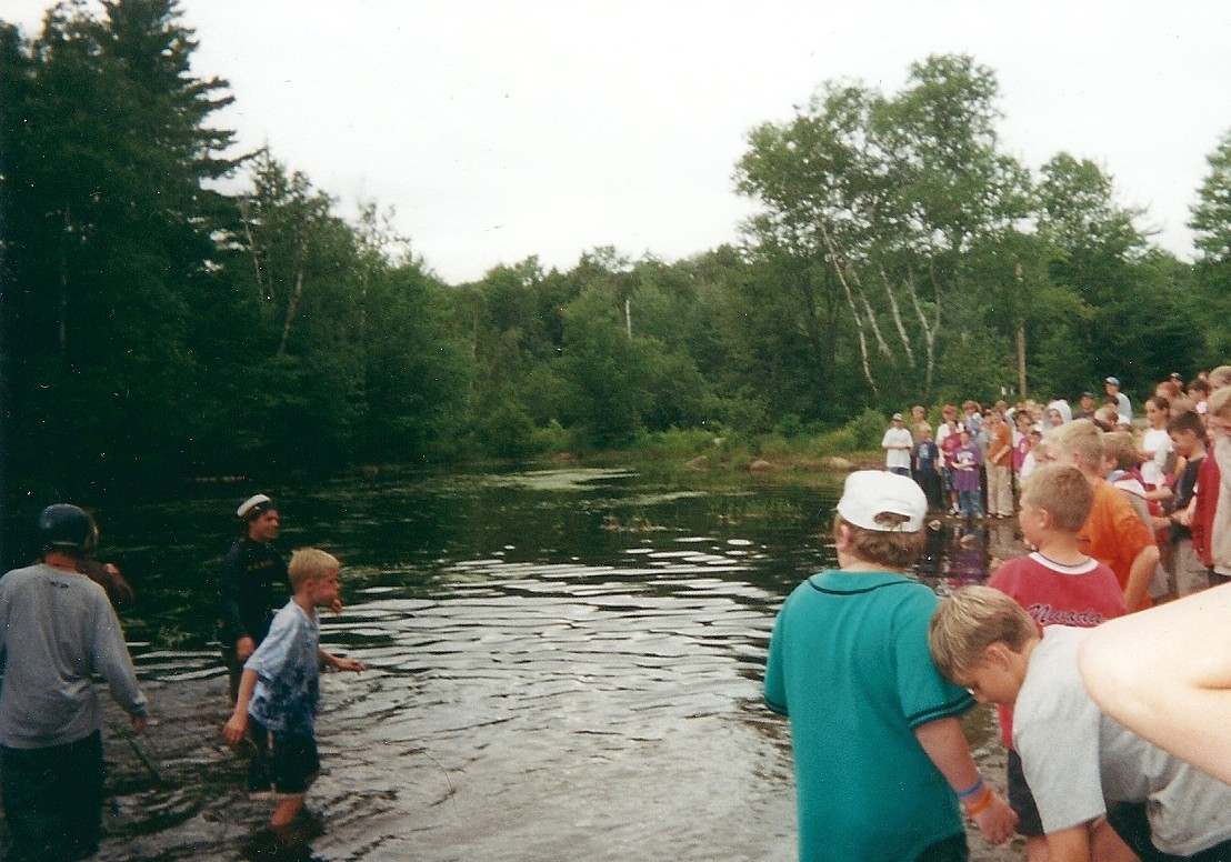 Campers at YMCA Wanakita watching as alleged rule-breakers wade through the swamp.